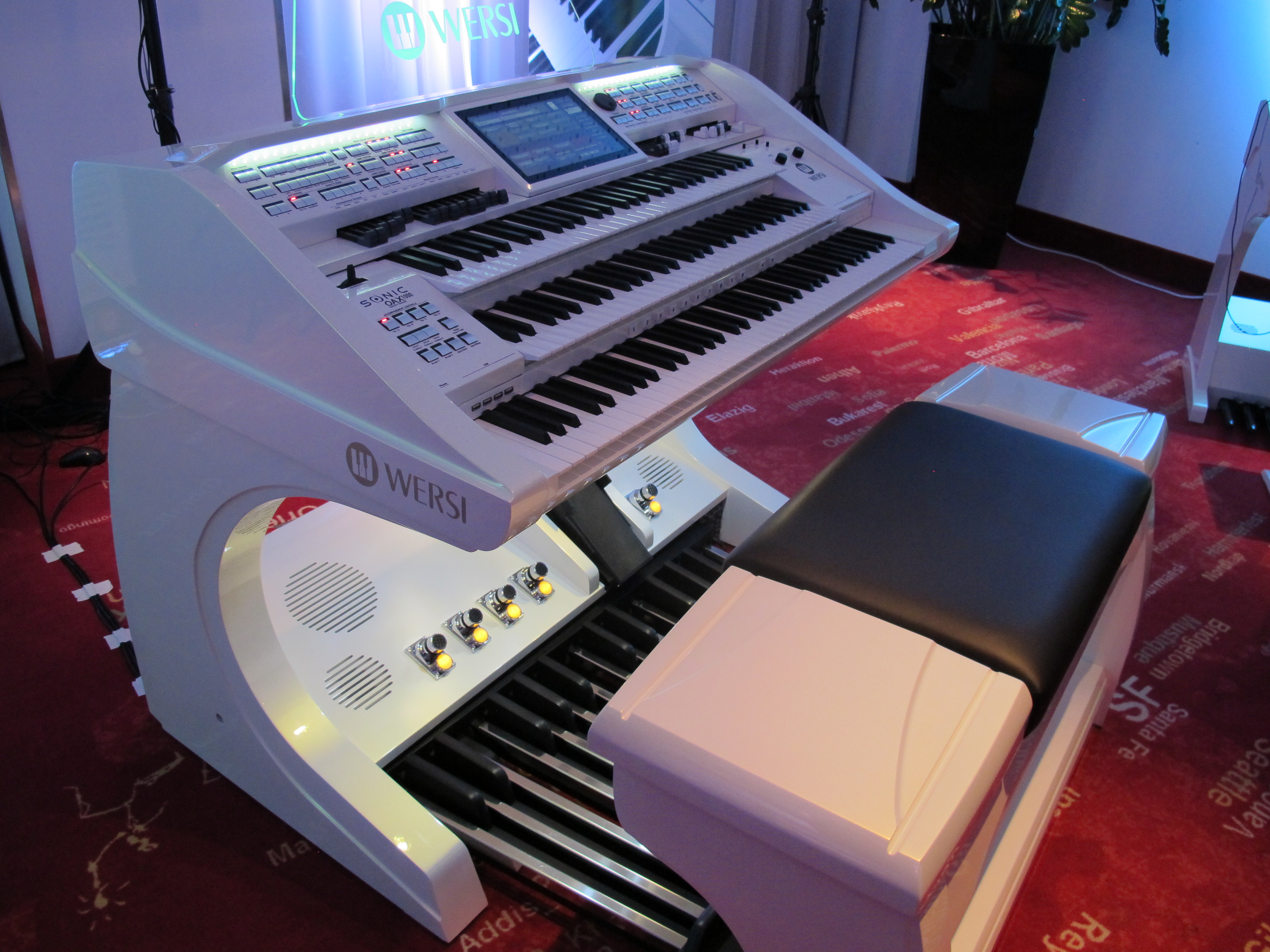 Organ Wersi Sonic OAX1000